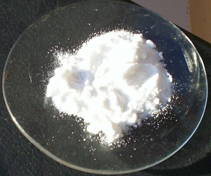 Picture of sodium iodide, taken by User:Walkerma, January 2006.